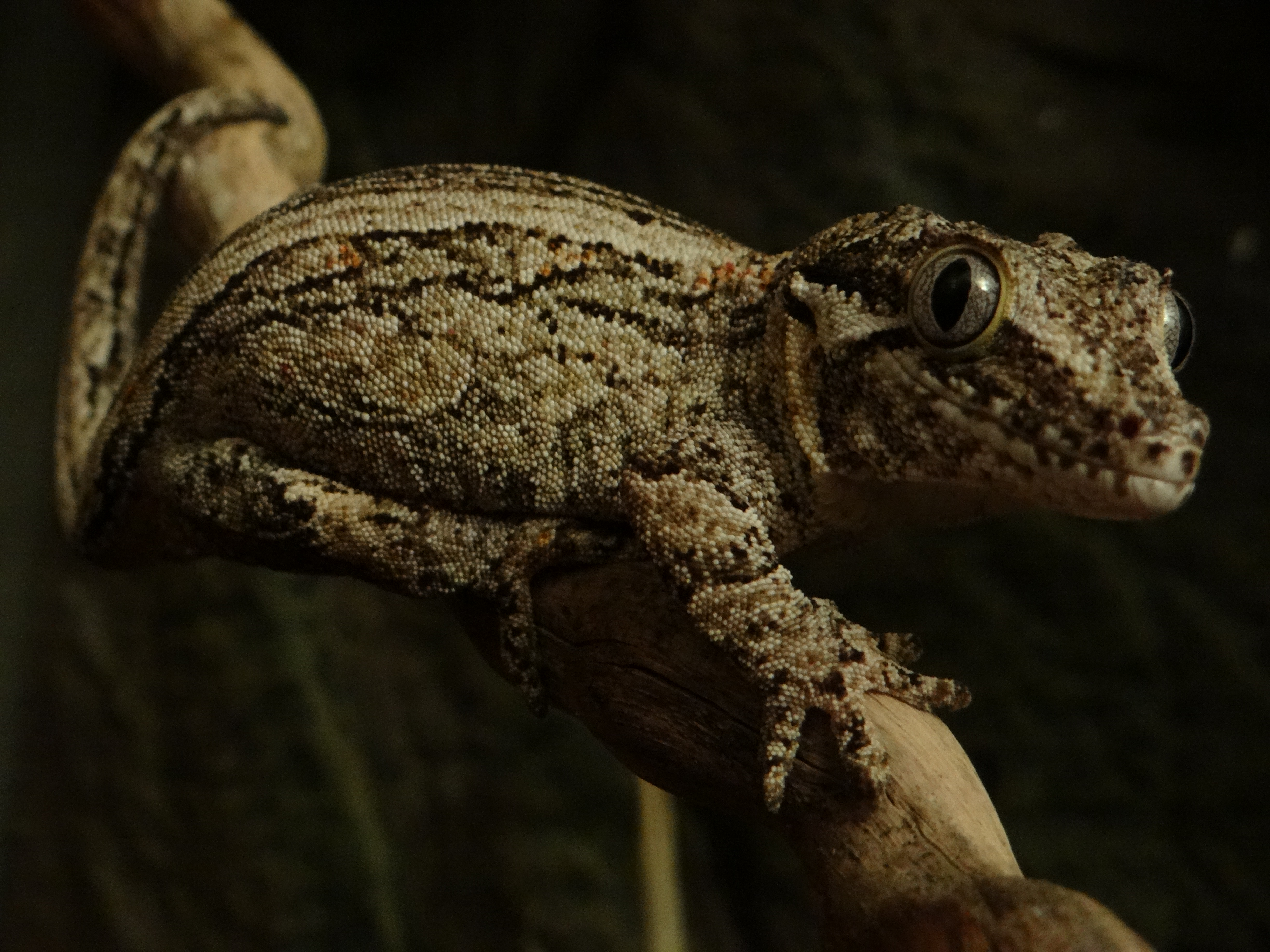 female Rhacodactylus auriculatus, born in captivity.